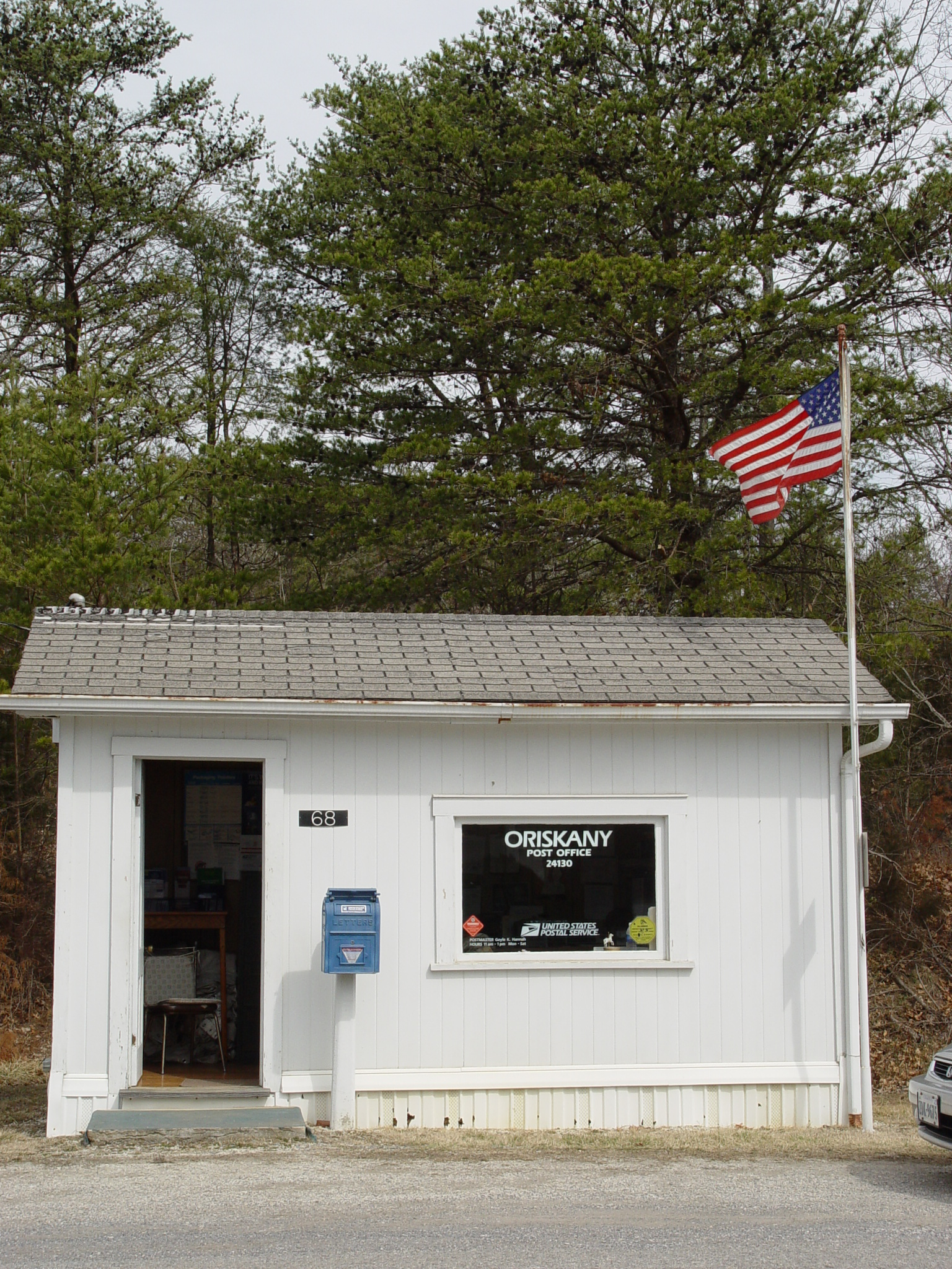 Small Community Post Offices are becoming a thing of the past. I was just out driving around through Botetourt County and stumbled upon the very small Oriskany Post Office (24130)